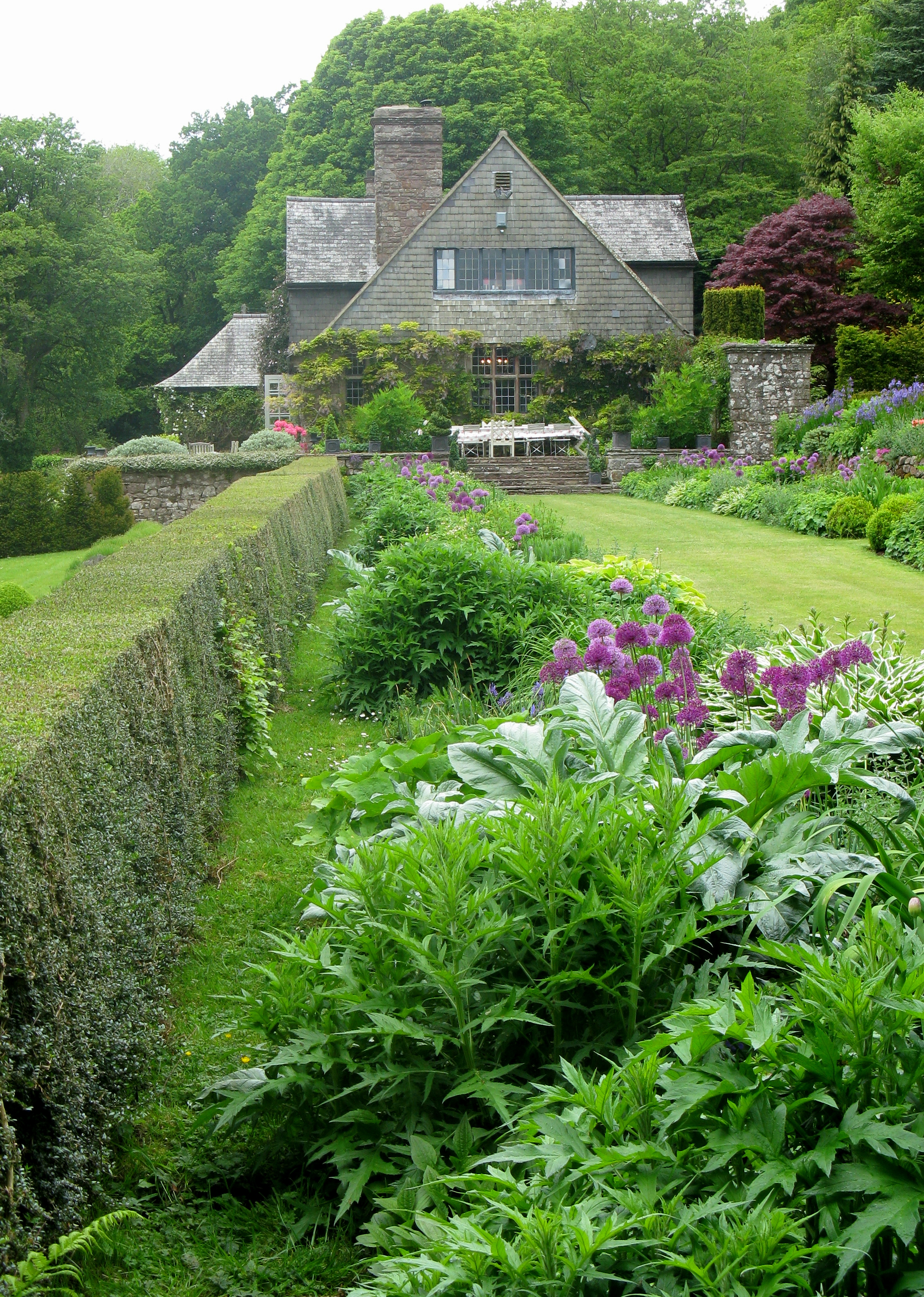 High Glanau Manor from the long border. High Glanau (also known as High Glanau Manor) is a country house and Grade II* listed building within the community of Cwmcarvan, Monmouthshire